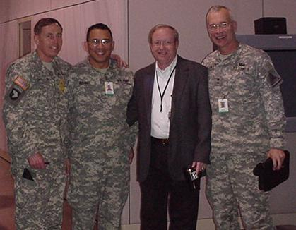 Gen Petraeus, Gen Bryant, Col (RET) Betson, Gen Williams